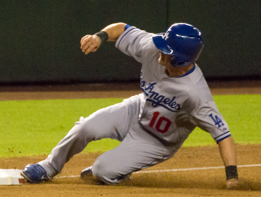 Michael Young